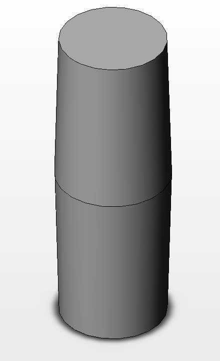 A 3D model of a cylinder with a center parting line and longitudinal draft.